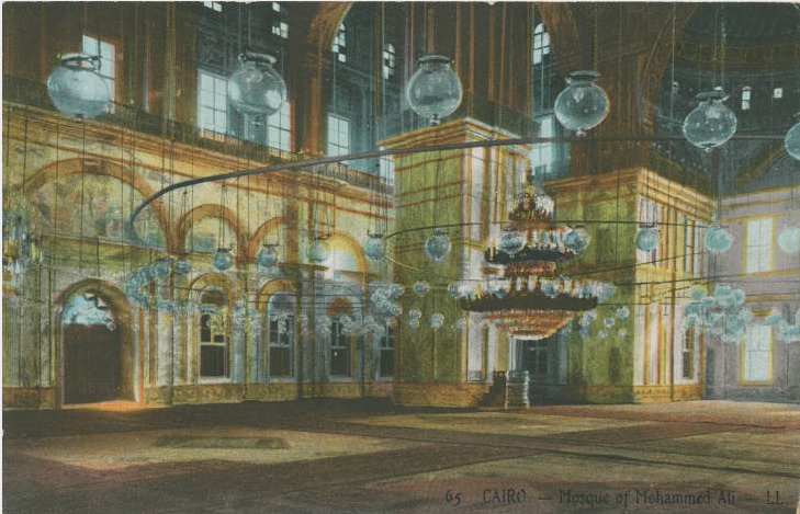 Postcard showing the interior of Mohammed Ali Mosque